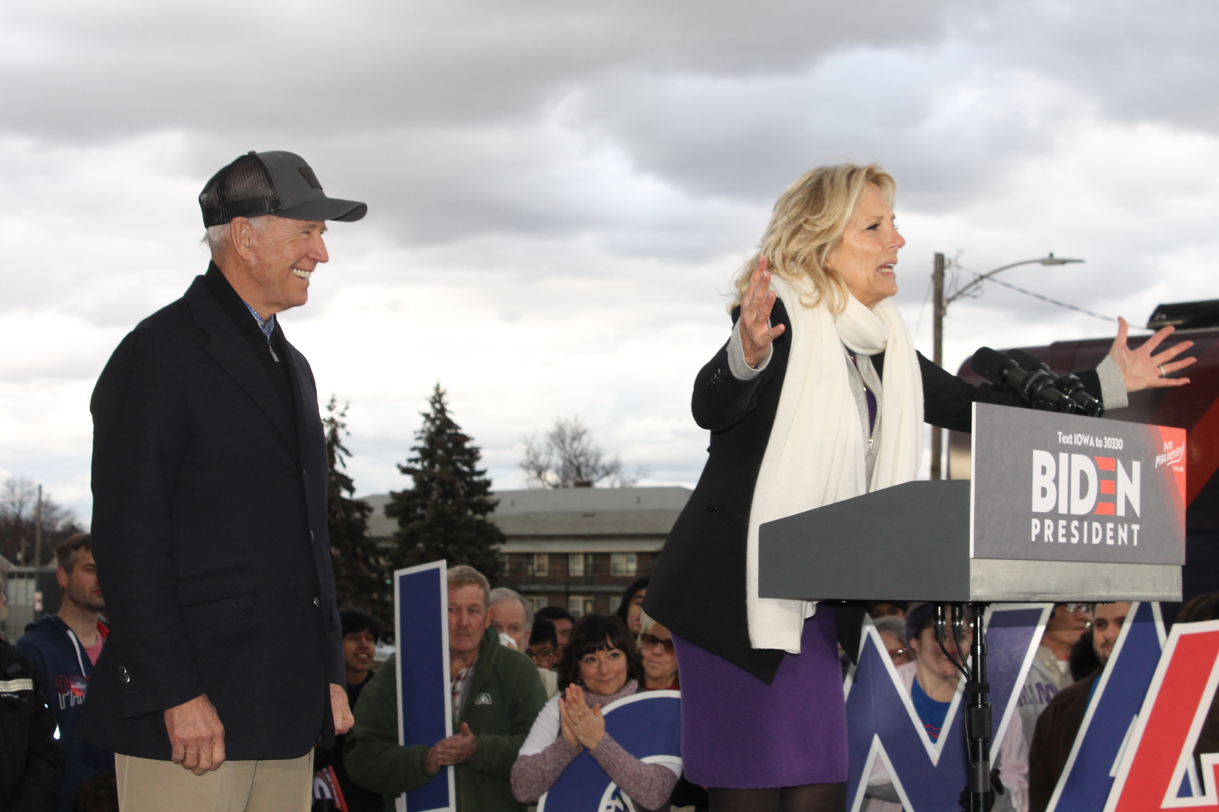 Jill Biden introduces her husband Joe at a rally outside his campaign office in Council Bluffs, Iowa. J. is used elsewhere.